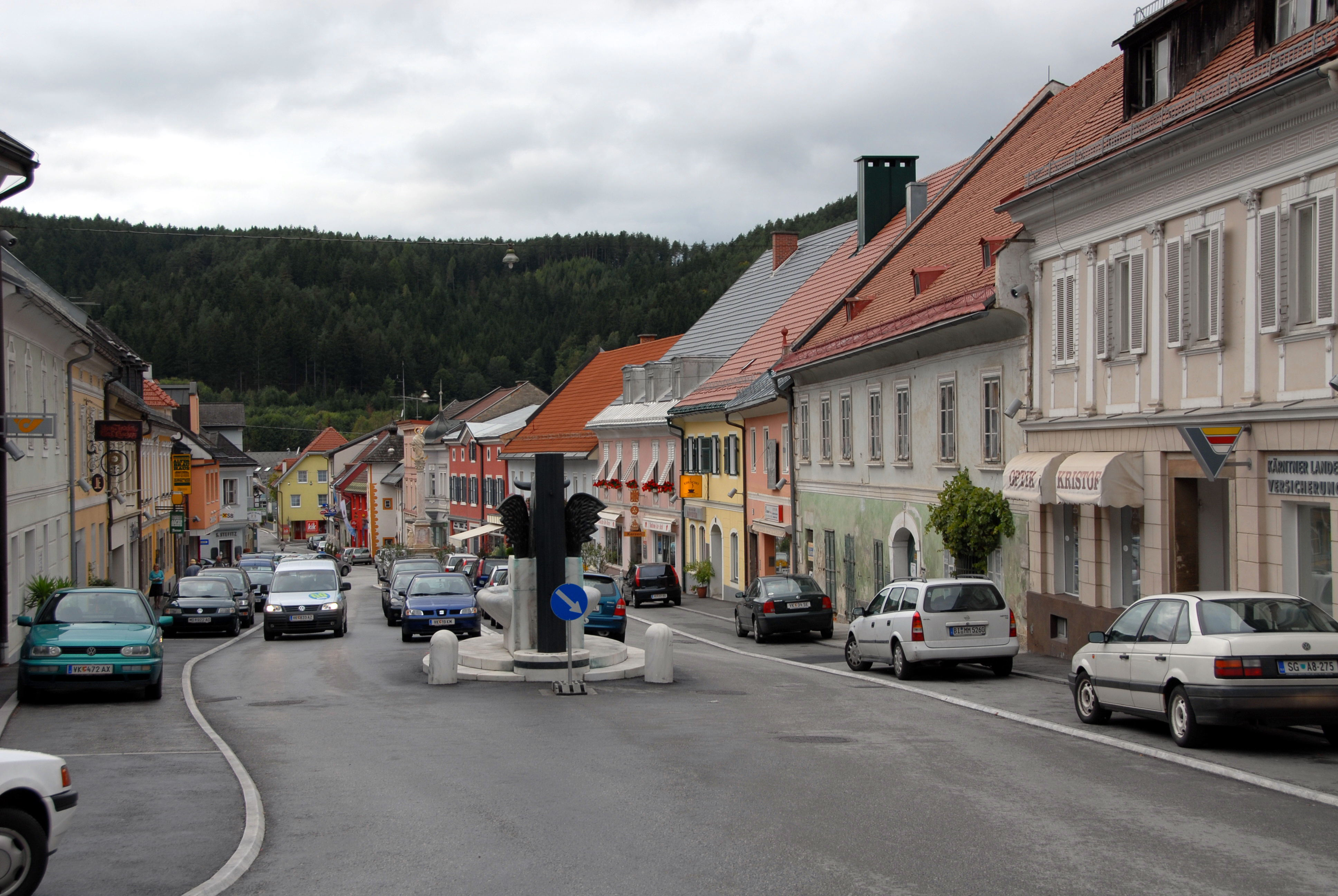 Main square in Bleiburg, Carinthia, Austria